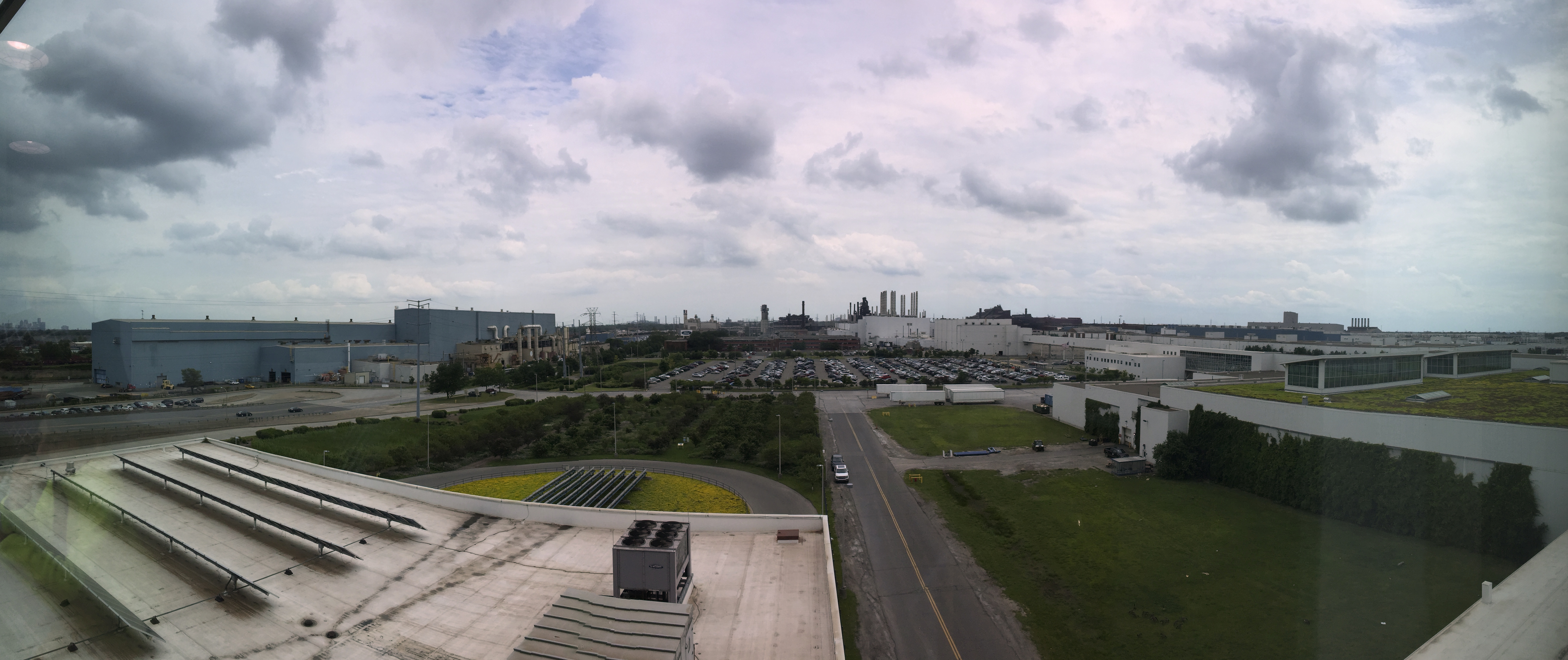 Ford River Rouge Complex in 2019